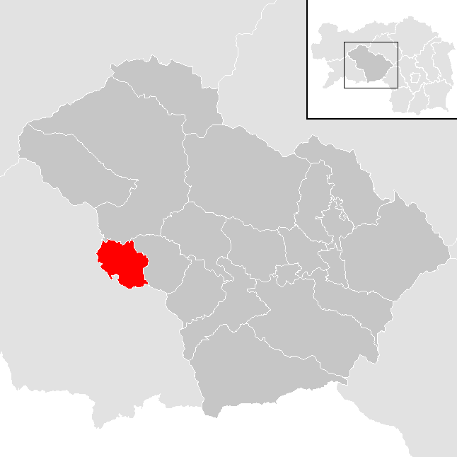 district Murtal in Styria, Austria